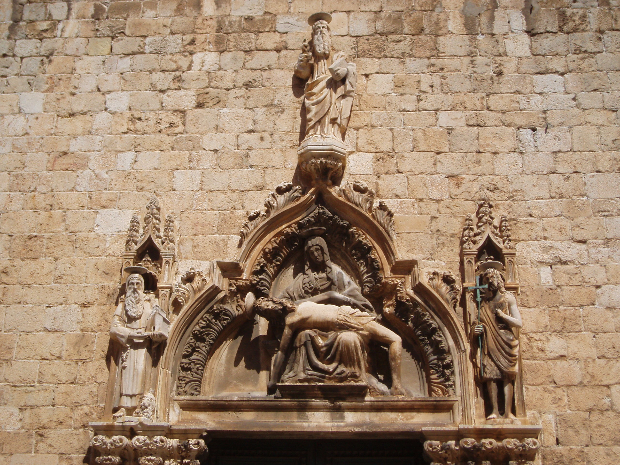 Sculpture over the entrance to the Franciscan church in Dubrovnik